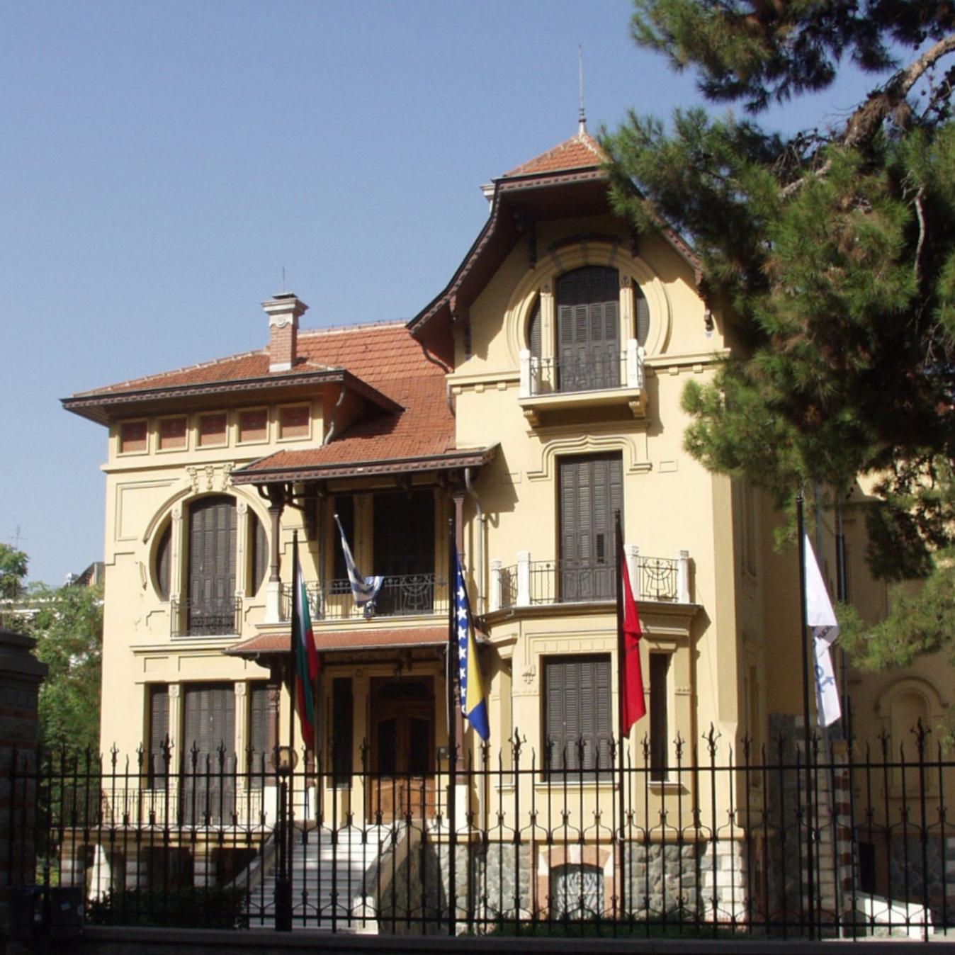 Villa Bianca (or Fernandez), Thessaloniki